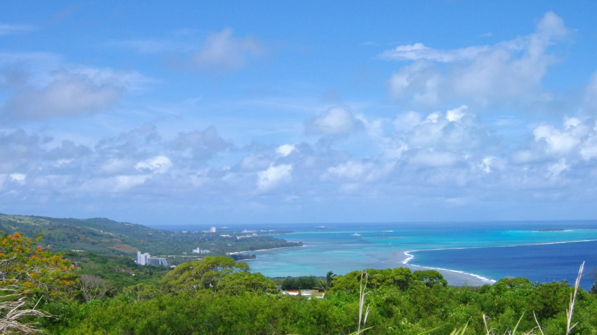 View of Northern Saipan